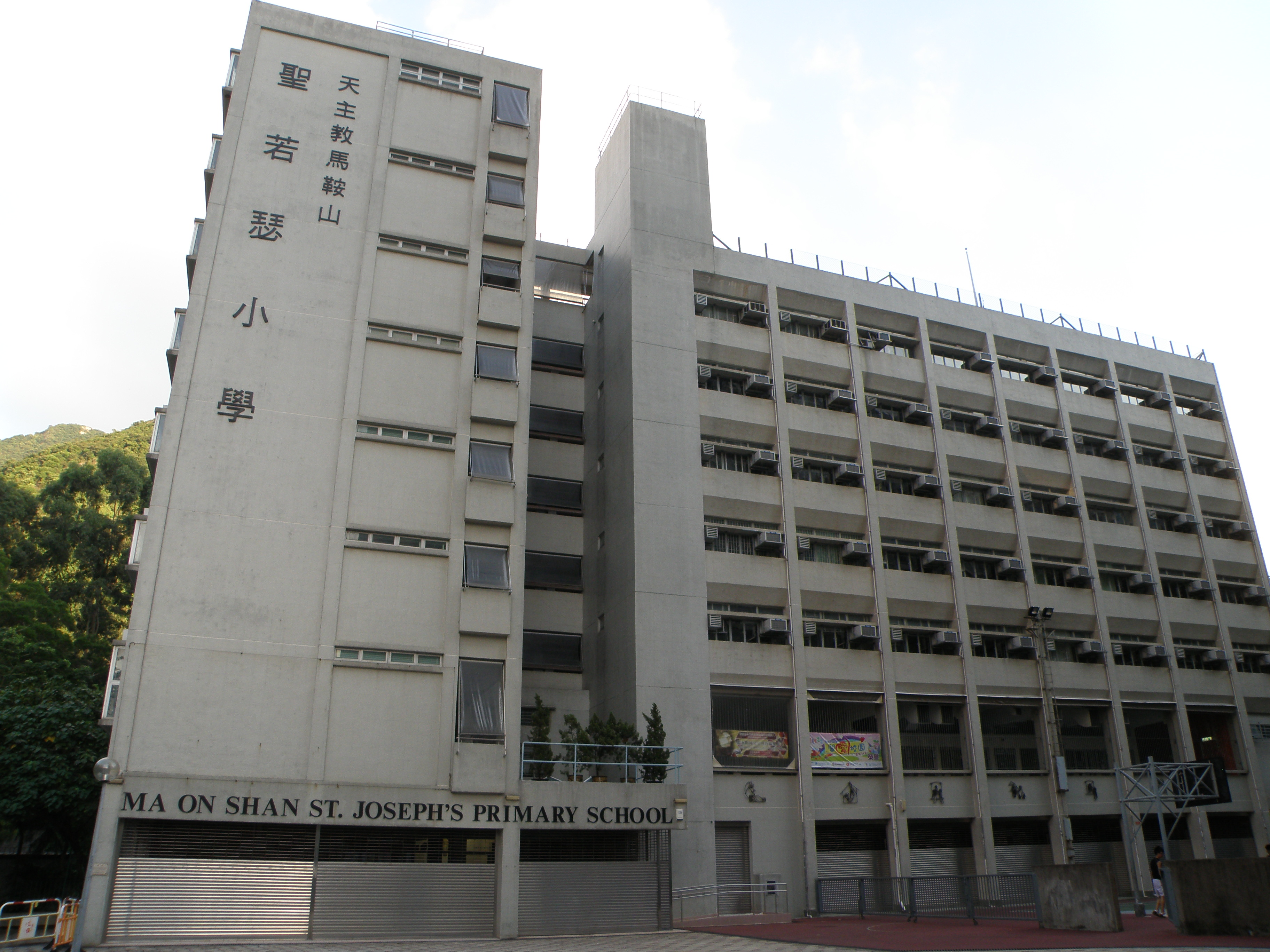 Ma On Shan St. Joseph's Primary School in Ma On Shan, Hong Kong.